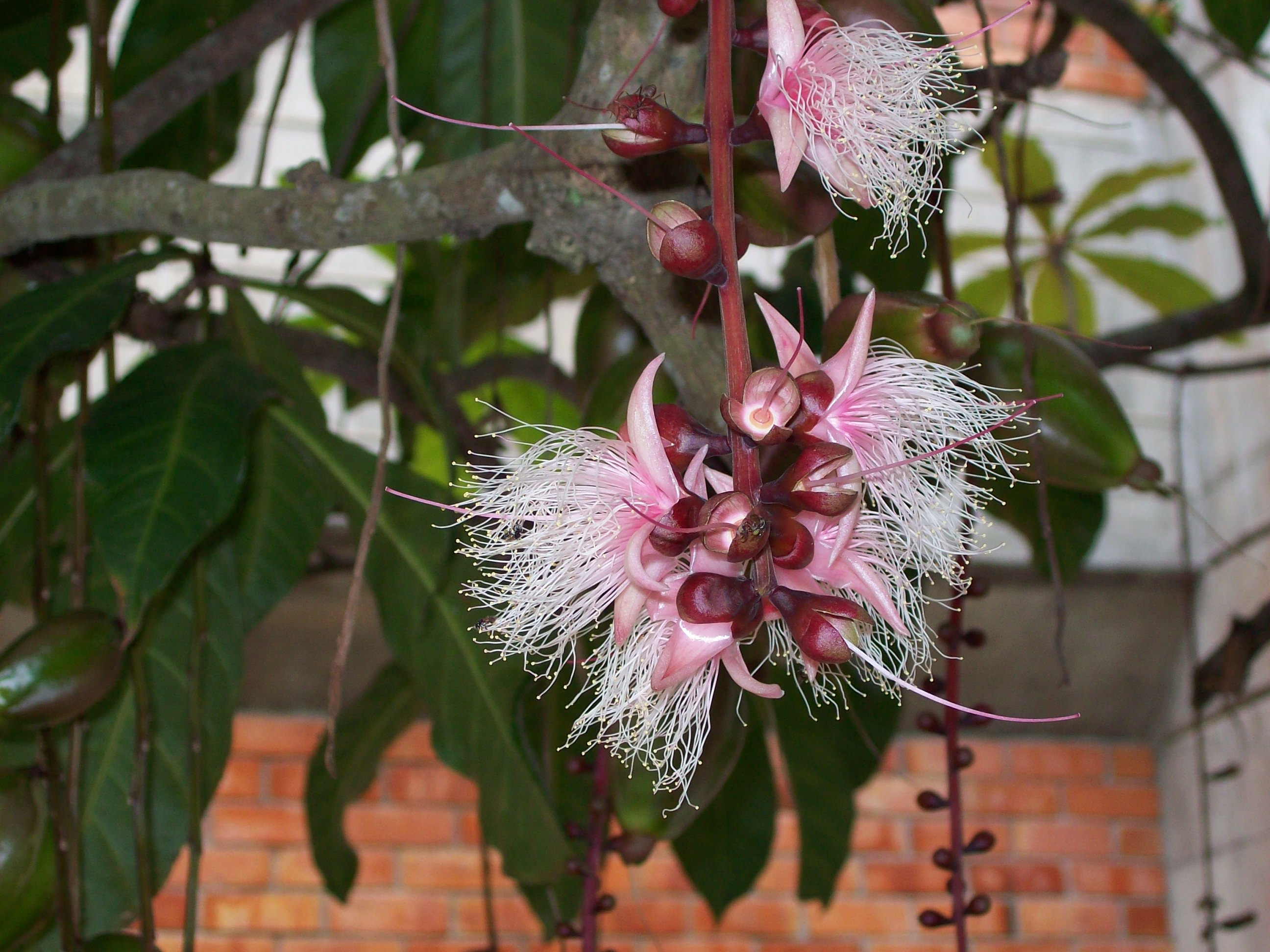 Barringtonia racemosa (L.) Spreng. (LECYTHIDACEAE) Captured beside Biology Building Flickr photos of Suresh Aru